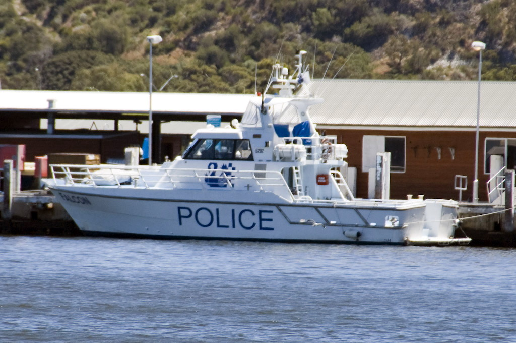 Western Australia Police Water Police TW160.